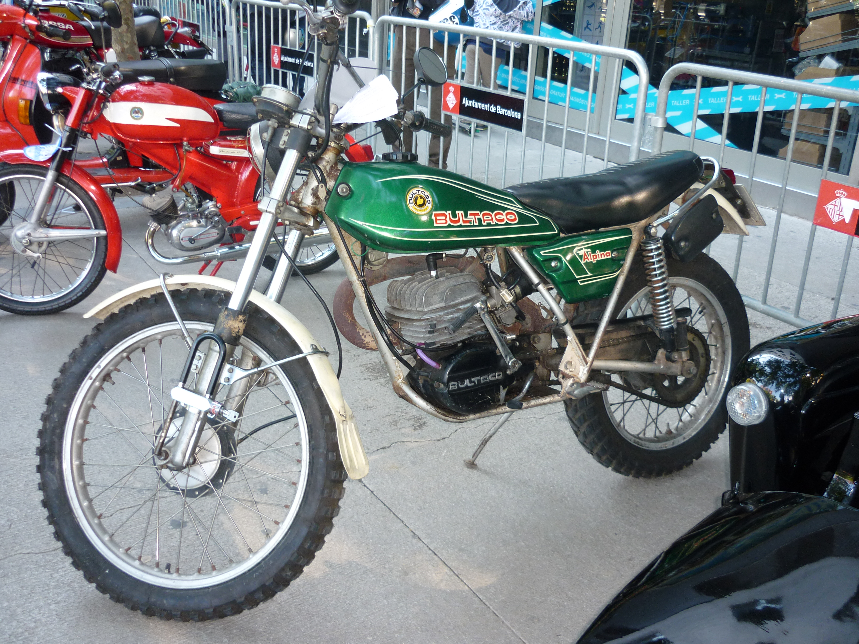 Bultaco Alpina 250cc (1977)